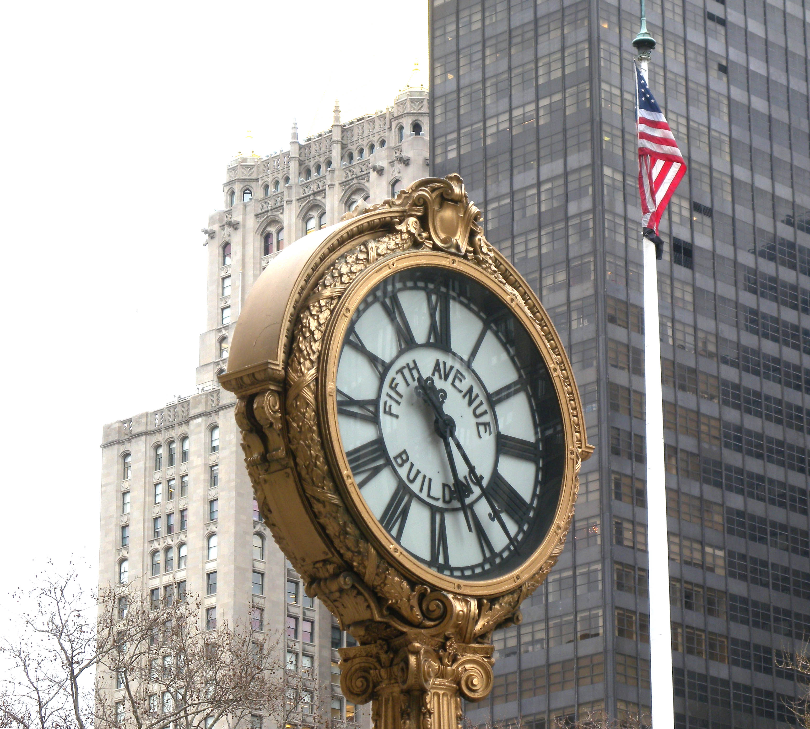 Looking northeast at sidewalk clock at 200 Fifth Avenue on a cloudy afternoon. NYCLPC designation 1981; Guidebook map 8. See also File:Sidewalk-clock-200-5th-avenue.JPG.